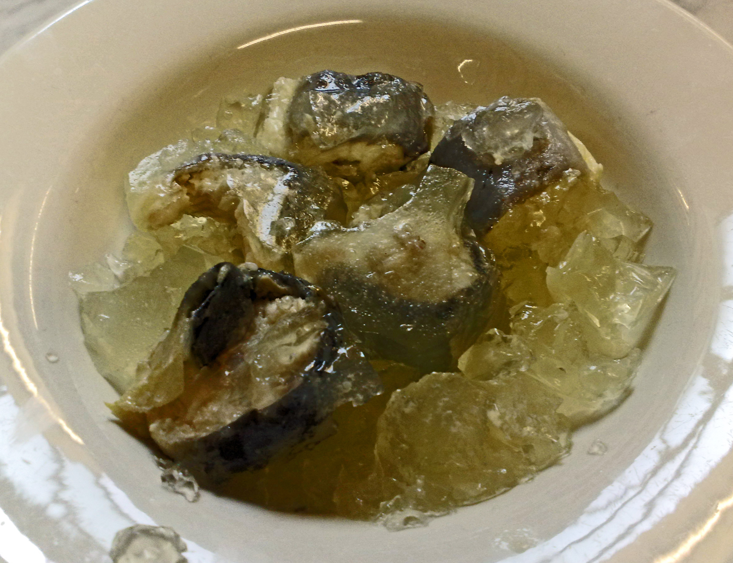 Jellied eels, a traditional working class London (cockney) dish. From Manze's Pie and Mash shop on Tower Bridge Road in Bermondsey, London.